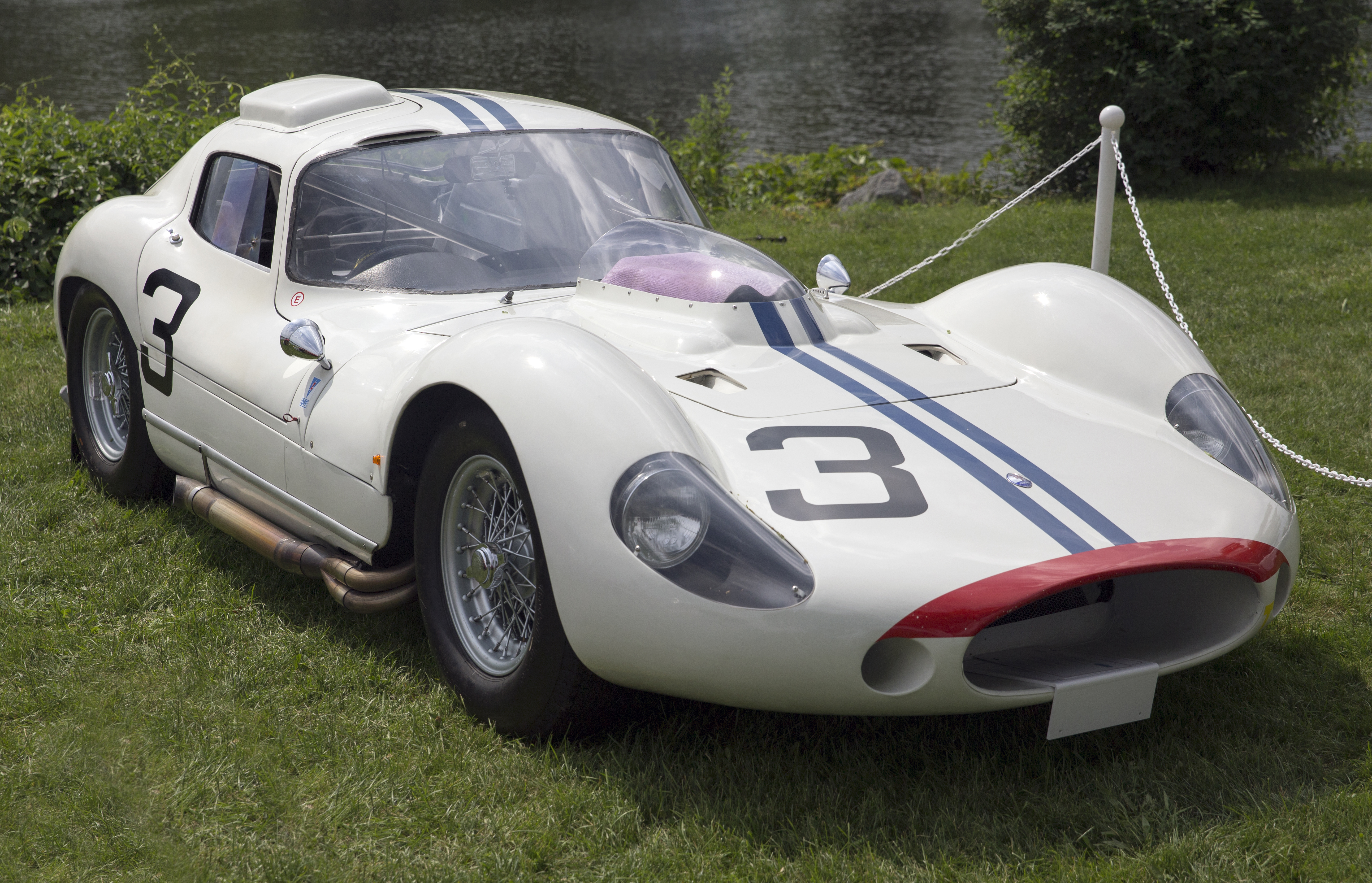 A 1962 Maserati Tipo 151 (chassis 151.006, the third and last built) at the 2018 Greenwich Concours d'Elegance. Raced at Le Mans and then in various American races, without much luck. A Chuck Jones tried to sell it in mid-1963, but when no one was interested he converted it for road use, including the change to a clamshell bonnet to ease maintenance. The car's bonnet was recently restored to its original configuration by its owner Lawrence Auriana.